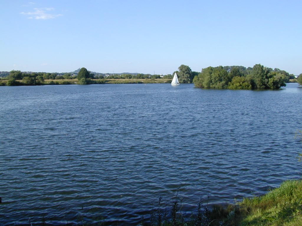 Heuchelheimer See, Heuchelheim, Hessen